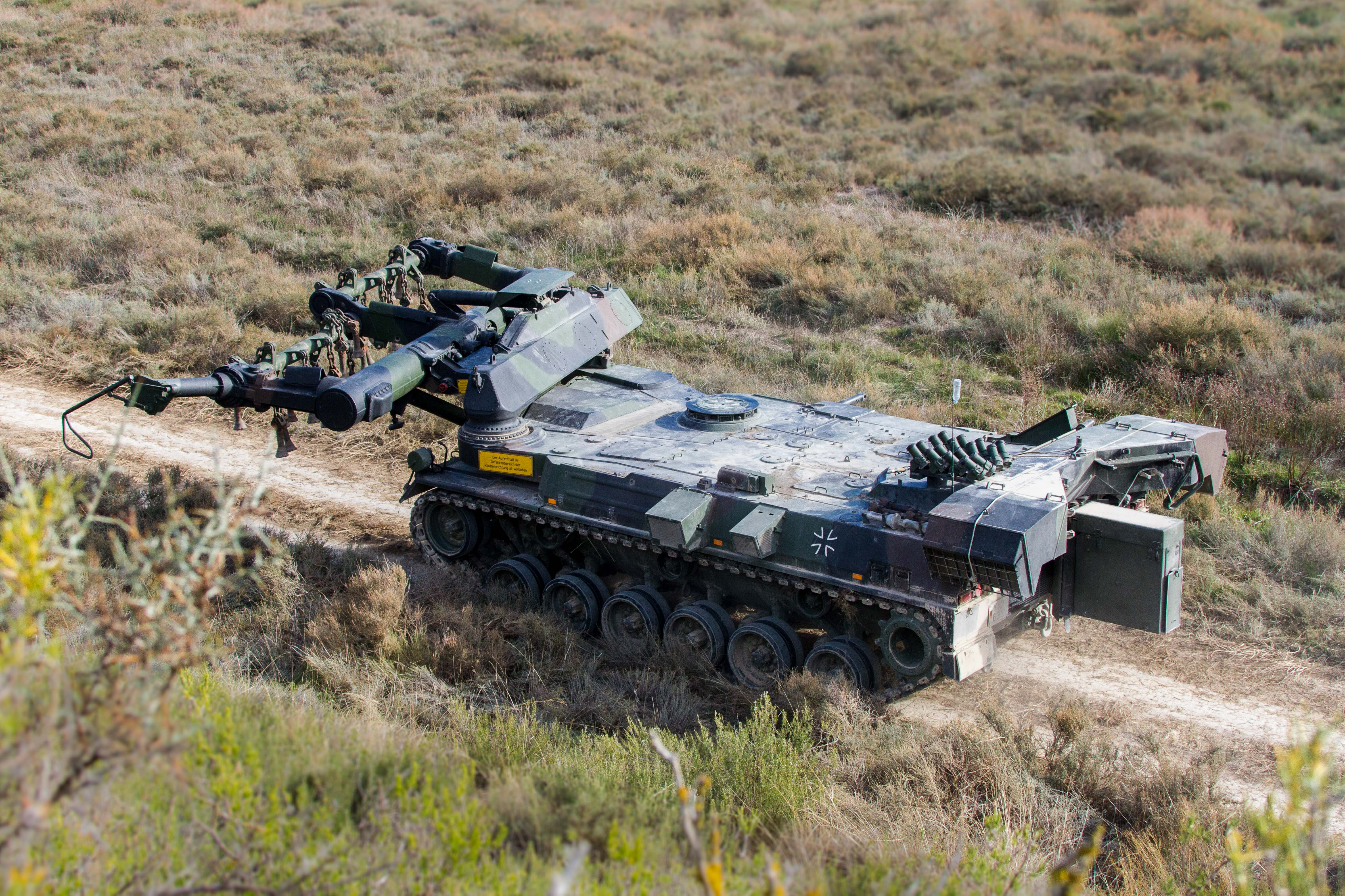 German Mountain Engineers mine clearing tank "Keiler" on its way to clear the minefield at San Gregorio training area, Spain on October 23, 2015 during Trident Juncture 15. (Photo: A.Markus EKT CJOPCOMMTF)